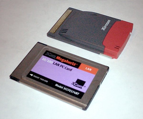 PCMCIA cards, Type II and Type III. Copyright 2004 David Gerard.